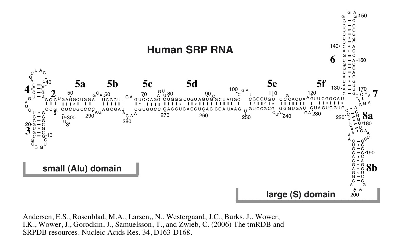 Human Signal Recongnition Particle (SRP) RNA secondary structure